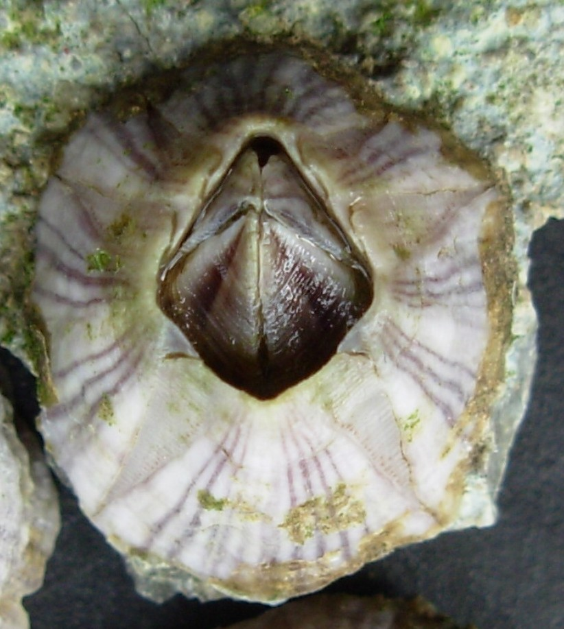 Amphibalanus(=Balanus) amphitrite, apical view